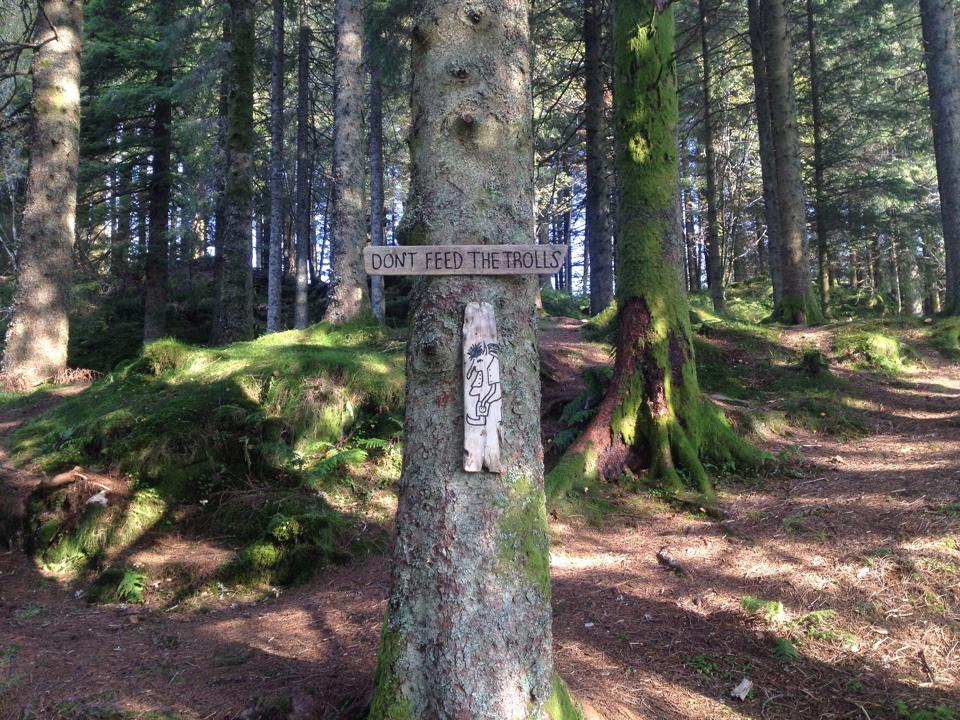 A sign saying "don't feed the trolls" on a mountain Fløyen in Bergen, Norway.